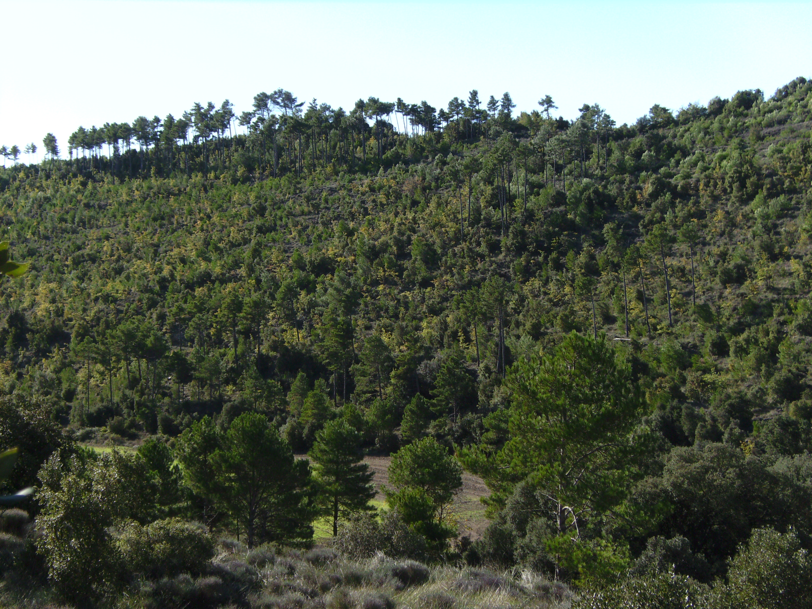 Natural regeneration of a Pinus nigra forest in 2012, after a 1998 wildfire. Castelltallat Catalonia